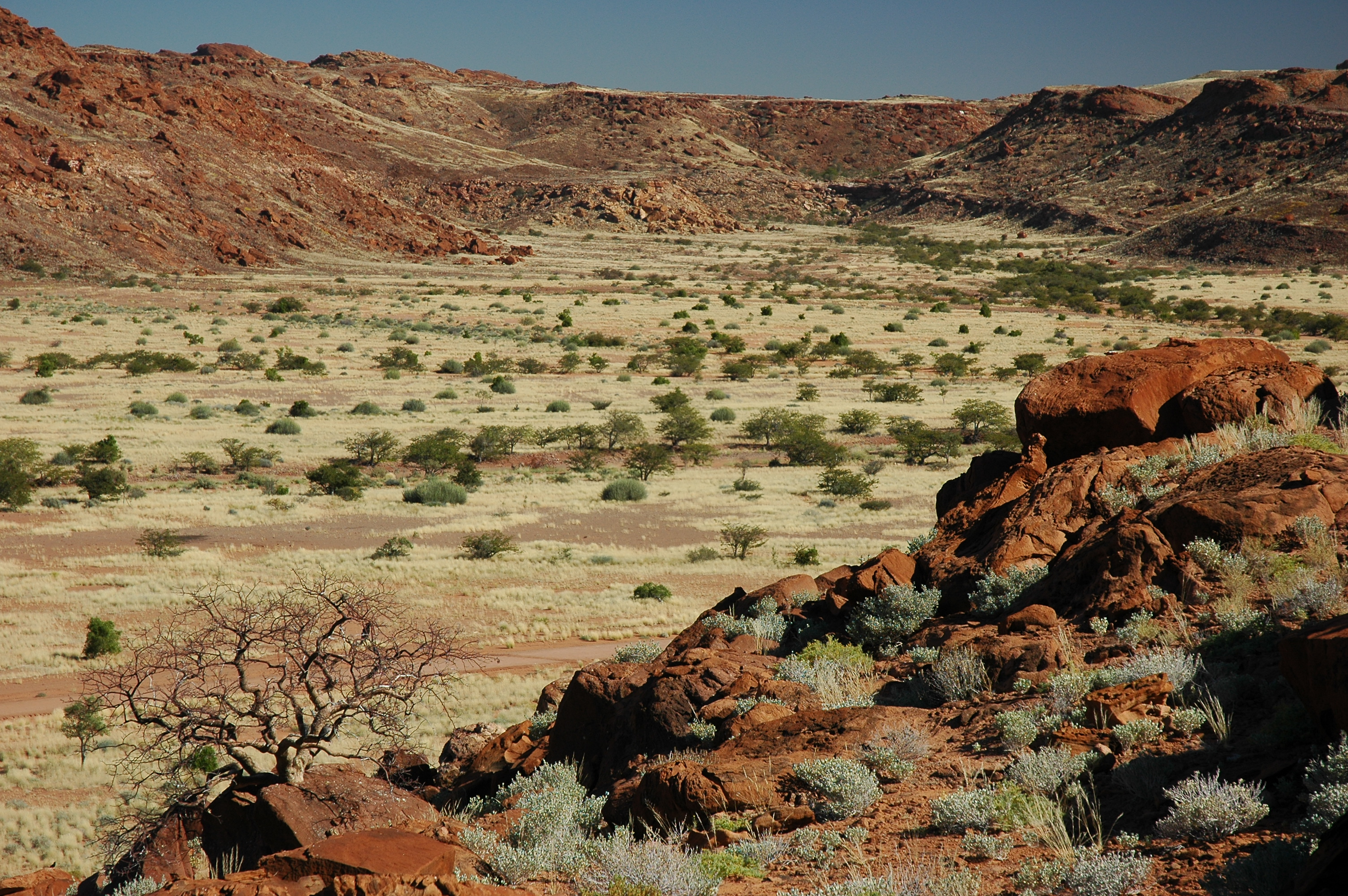 Namibie Twyfelfontein Photographie prise par GIRAUD Patrick